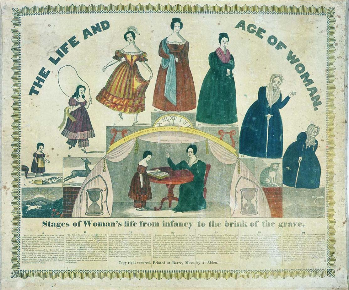 "Life and Age of Woman," Hand-colored print